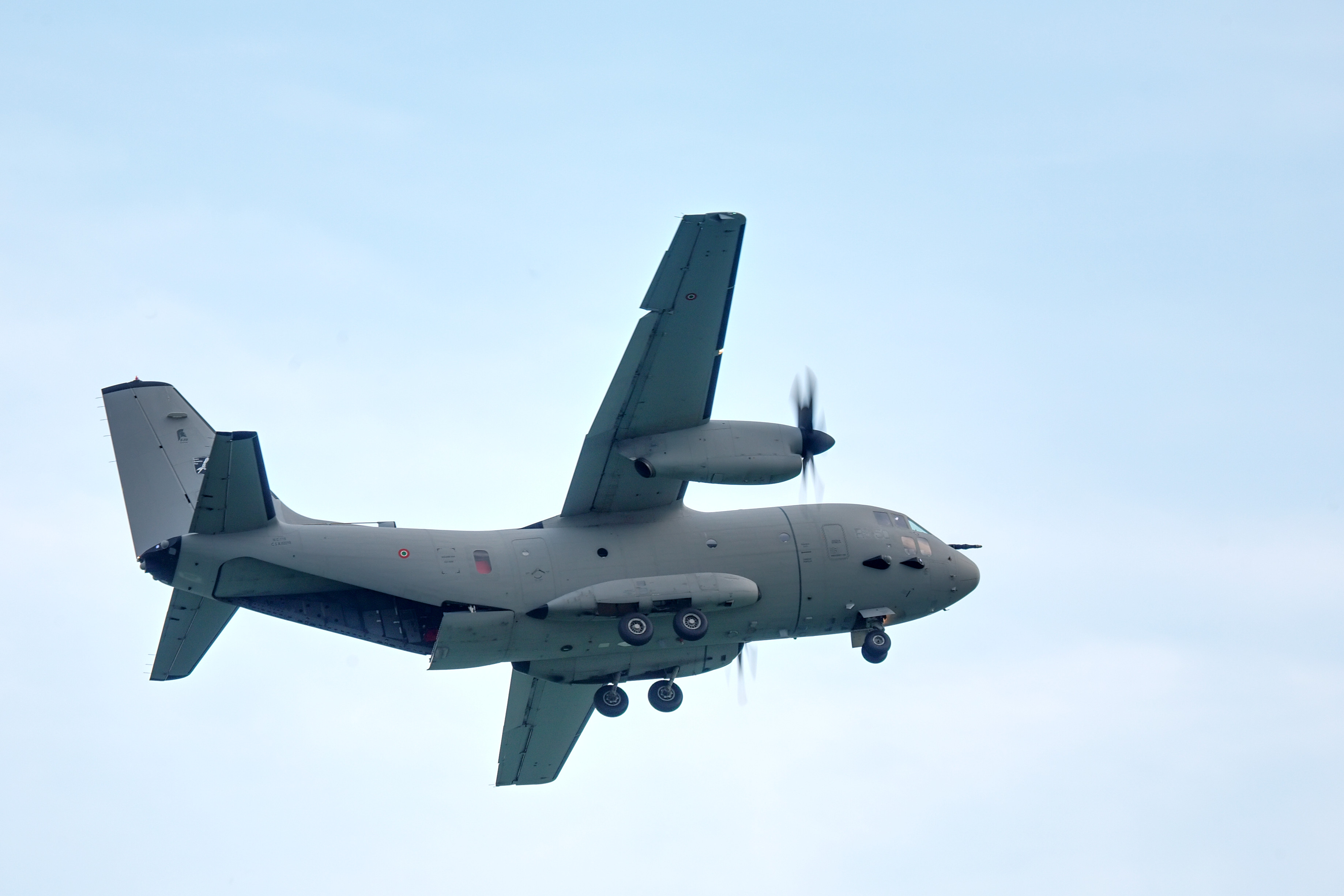 C-27J from Italian Air Force during an air show in Jesolo